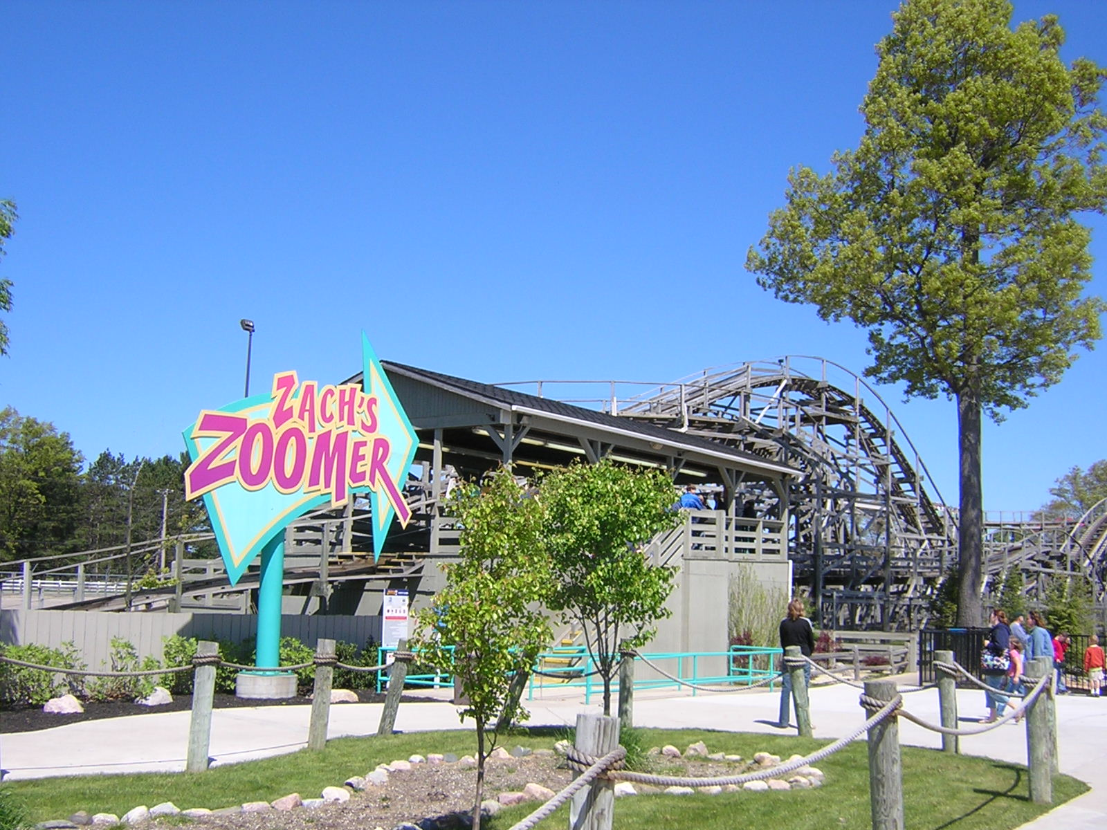 Zach's Zoomer, wooden roller coaster by Custom Coasters at Michigan's Adventure metro Muskegon area.